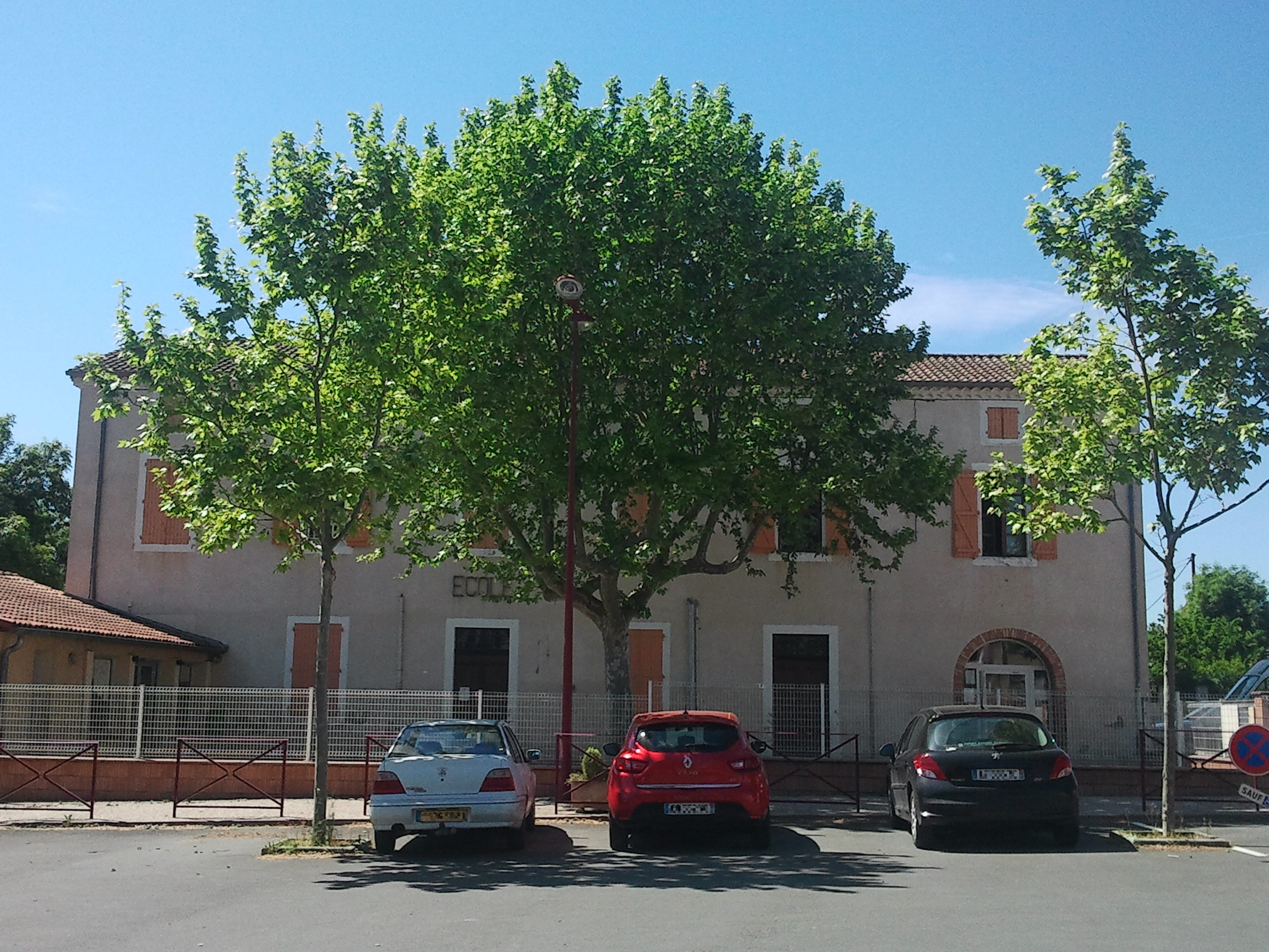 The school in Montdragon